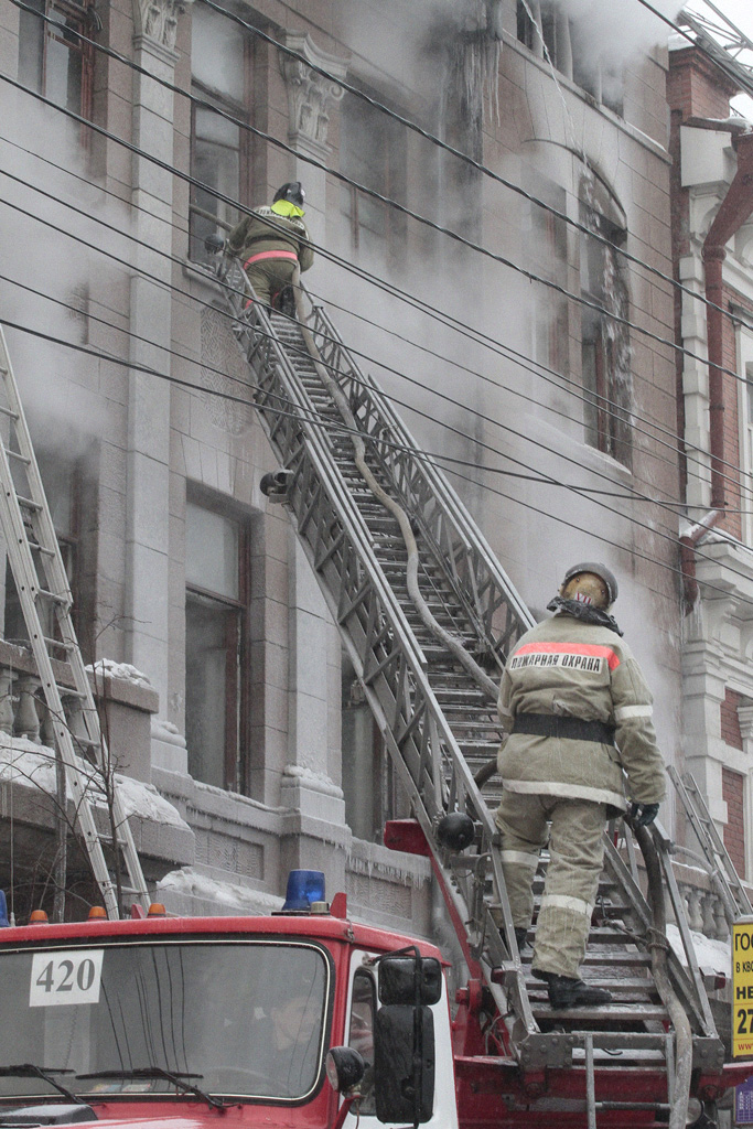 “Fire in Krasnoyarsk's Pushkin Theatre contained”. Rescuers of regional EMERCOM water administrative building of the Pushkin Theatre after fire.